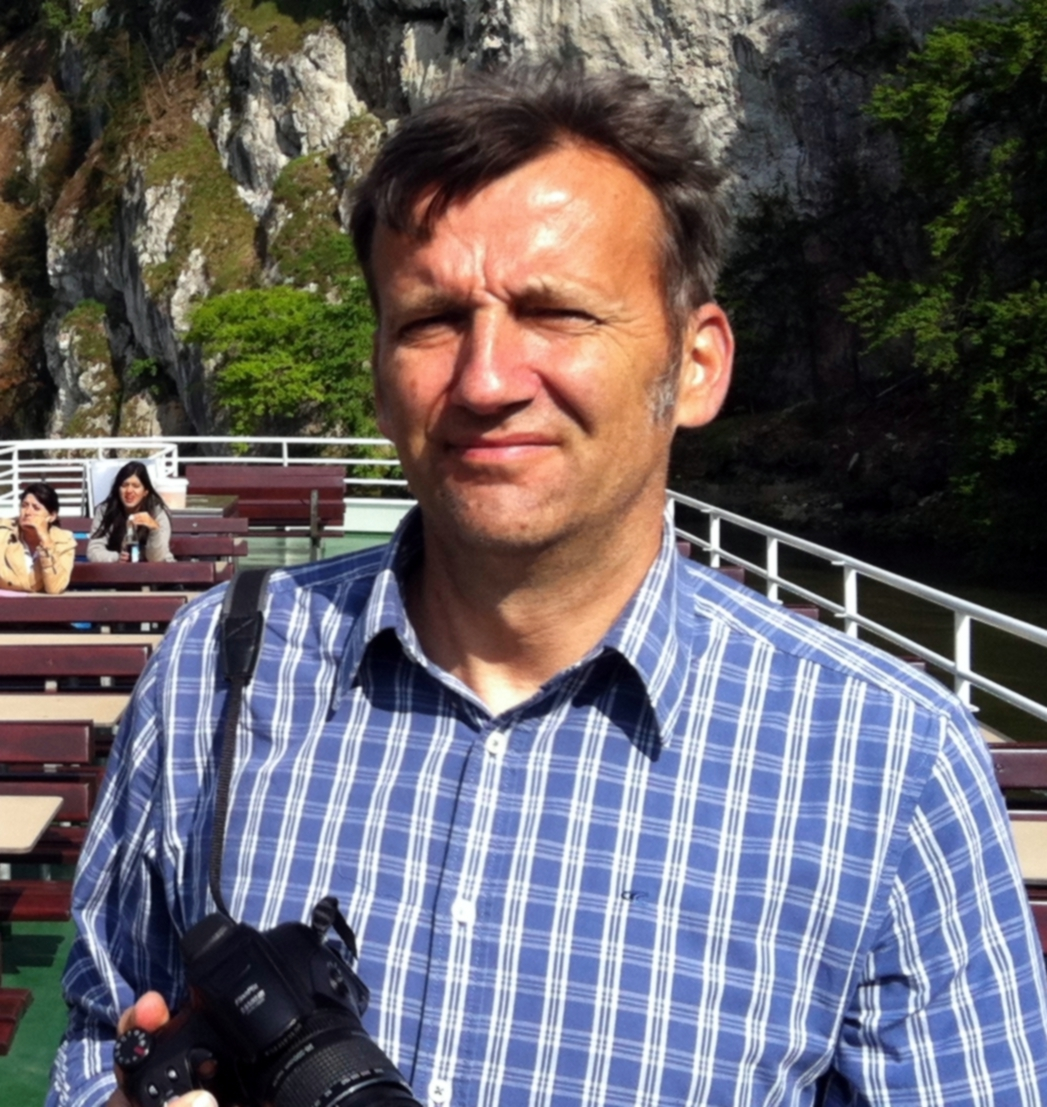 Arndt Spieth